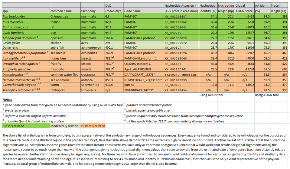 Table of a few select human FAM46C orthologs demonstrating the diverse groups of organisms possessing FAM46C-like proteins. Note that although the table is incomplete for the sake of readability, FAM46 genes exist in nearly all known multicellular organisms.